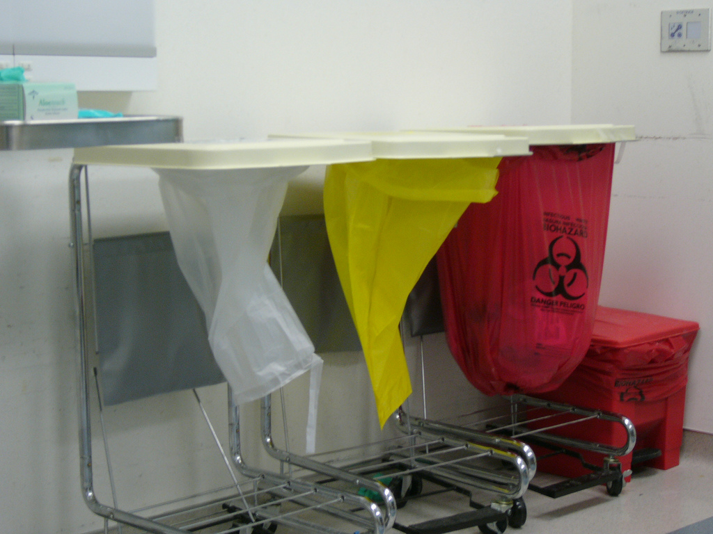 Sorting of medical wastes in hospital.